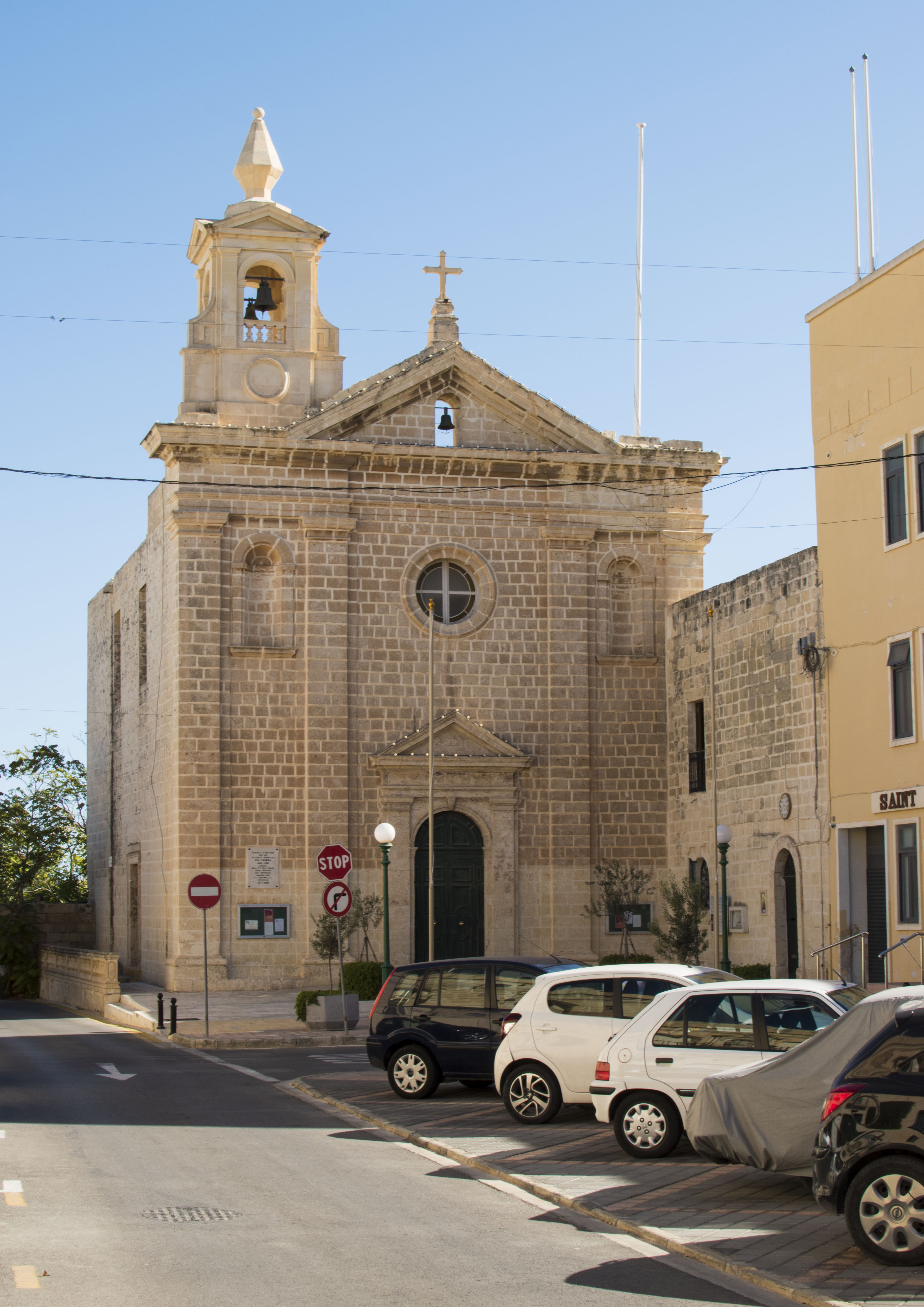 Old Parish Church of St. Venera in St. Venera Square, Santa Venera, Malta This media is about Maltese cultural property with inventory number 00199.